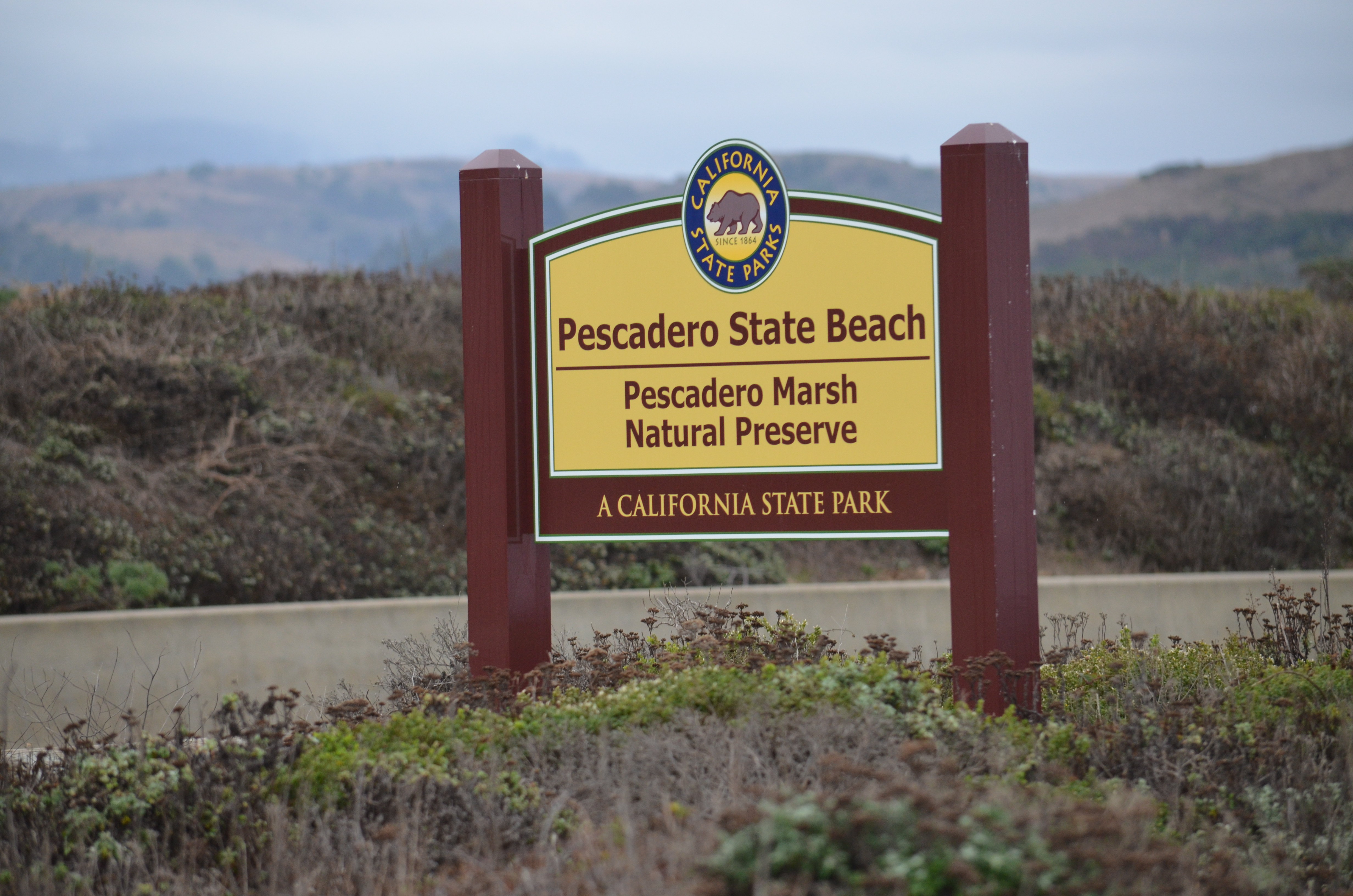 Pescadero State Beach, Pescadero Marsh Natural Preserve, California, USA